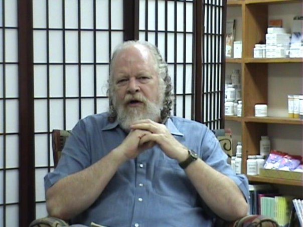 Thomas Duckworth discussing Kotatoma Principle.